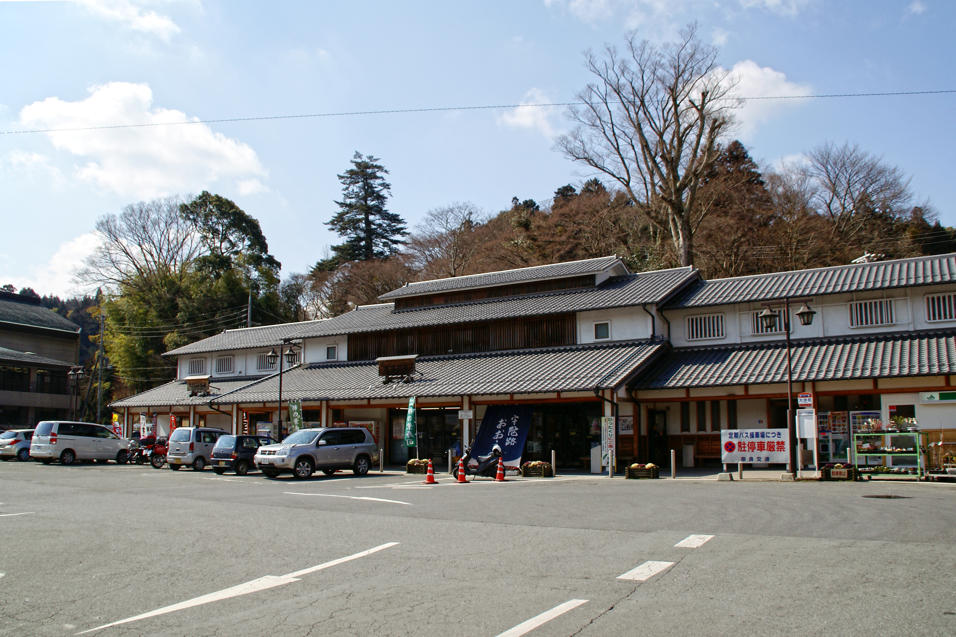 Udaji Ouda, a Roadside Station in Uda, Nara prefecture, Japan